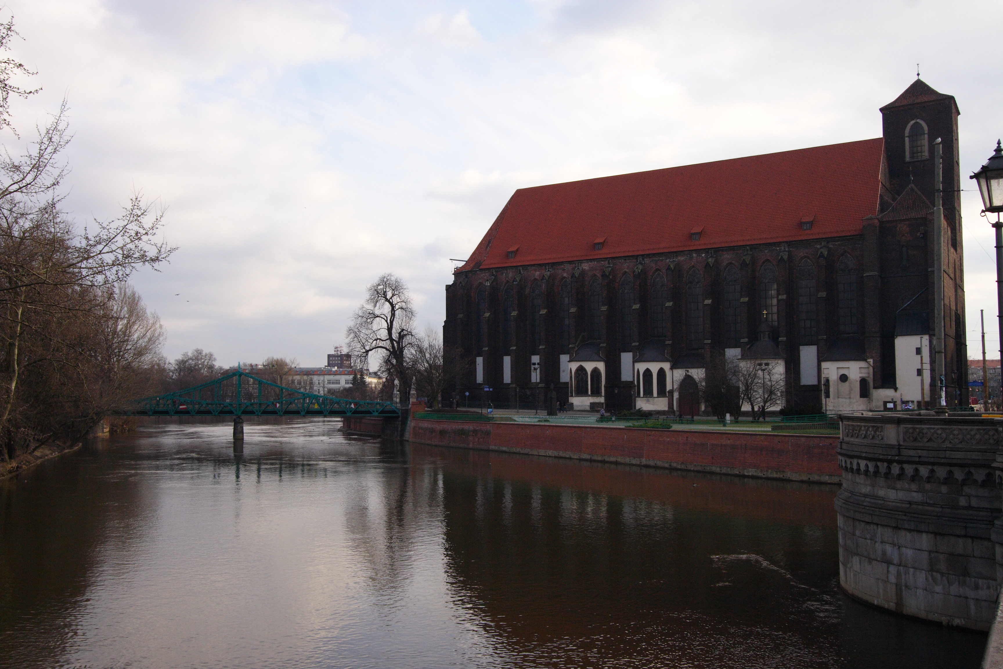 Wroclaw during WikiConference Poland'11